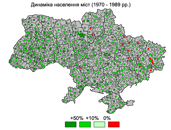 Population change of ukrainian cities and towns between 1970 and 1989 censuses/